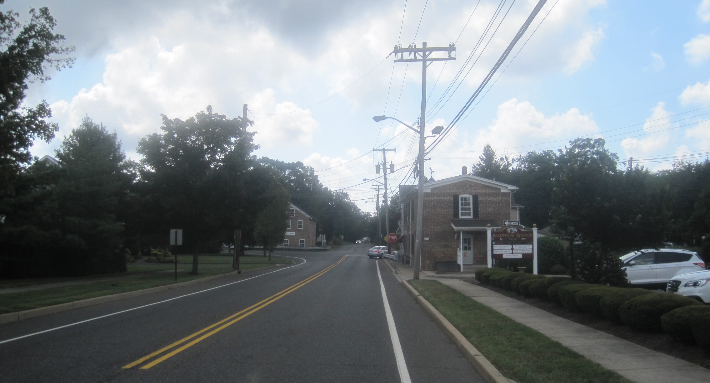 Photo showing Allenwood, New Jersey, a census-designated place within Wall Township. Photo taken along eastbound Atlantic Avenue (County Route 524 Spur) approaching Lakewood-Allenwood Road.